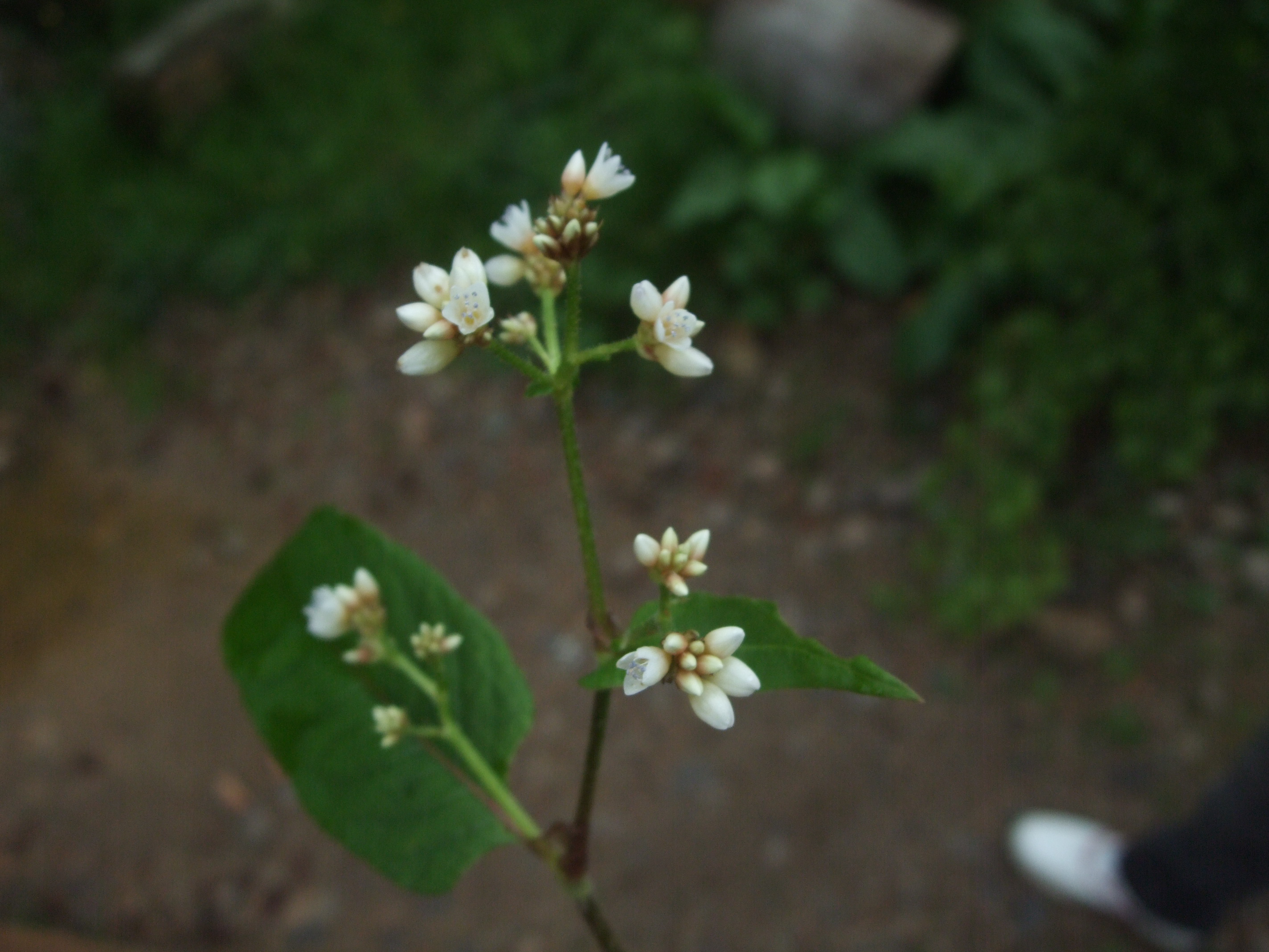 Rice Saartweed, Southern Smartweed, Chinese Knotweed (Persicaria chinensis (L.) H. Gross, syn. Polygonum chinense L.)